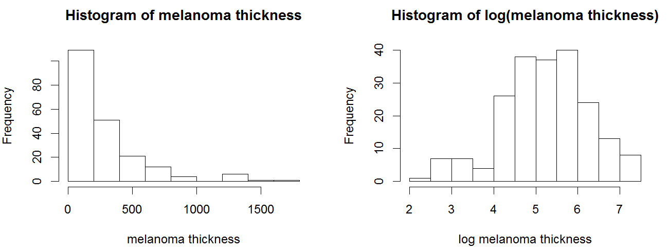 Histograms of melanoma thickness and log melanoma thickness for the melanoma data from R package ISWR by Dalgaard